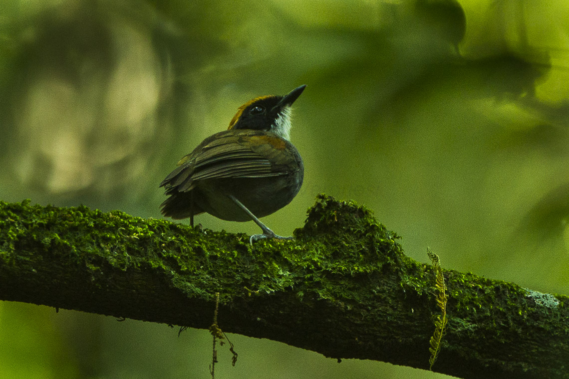 Black-cheeked Gnateater - Regua - Brazil_S4E1641